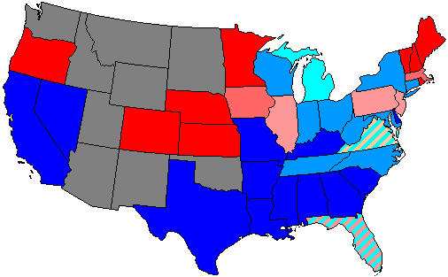 Summary of party control of U.S. house seats in the 48th United States Congress following election. Stripes indicate a tie between two or more parties. Legend: 80.1-100% Democratic seat majority 60.1-80% Democratic seat majority 60% or less Democratic seat plurality 60% or less Republican seat plurality 60.1-80% Republican seat majority 80.1-100% Republican seat majority 60% or less Readjuster seat plurality